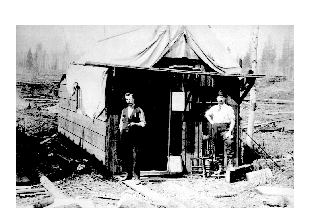 Photographer Unknown Photo taken 1910 BC Archives # D-07317 [1]